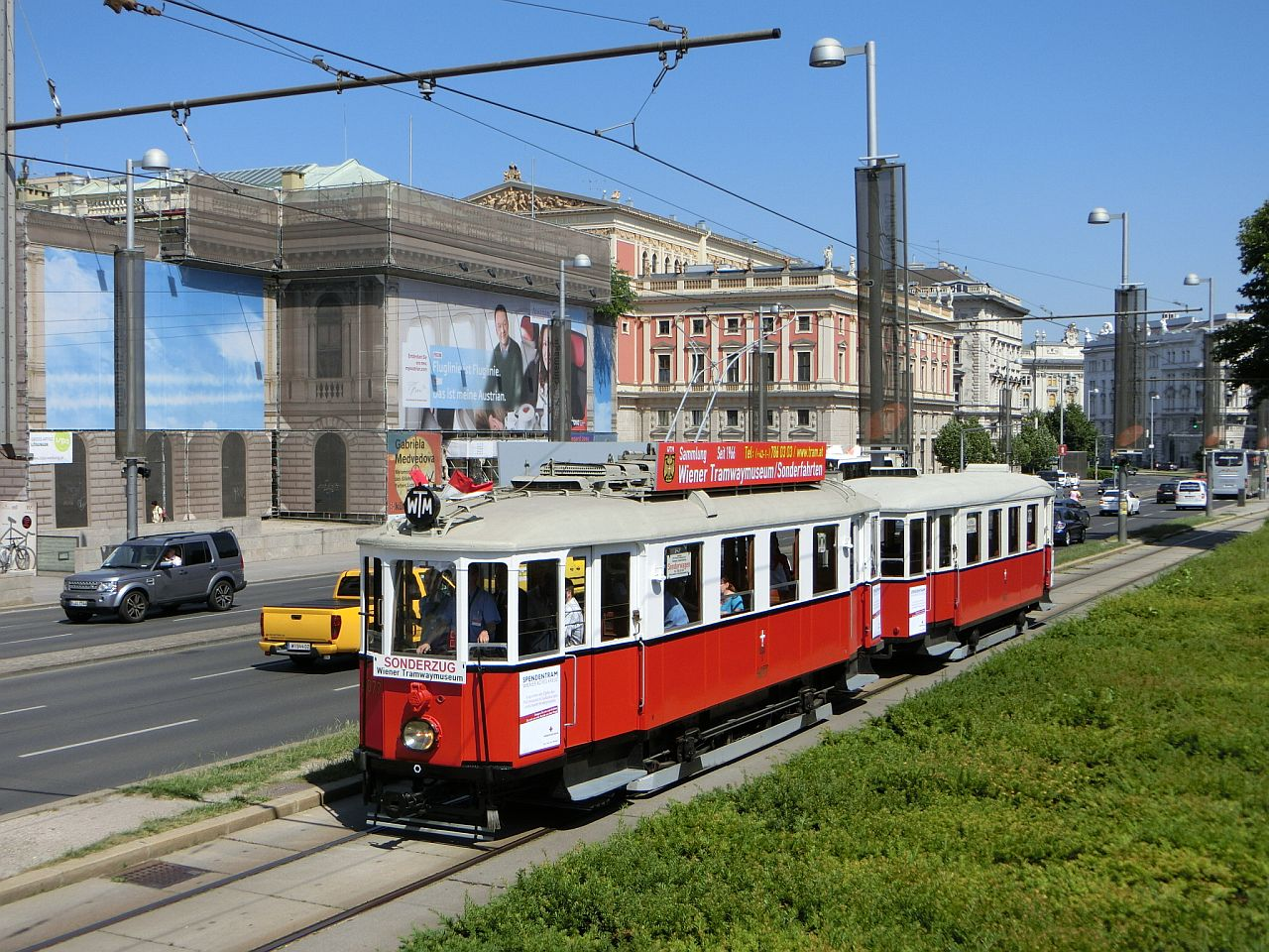 "Wiener Tramwaymuseum" tramway special tour with historic Vienna streetcars (Type M Nr. 4077 & Type m3 Nr. 5417) on its way to Karlsplatz on a tour for the Vienna Red Cross in aid of flood victims.